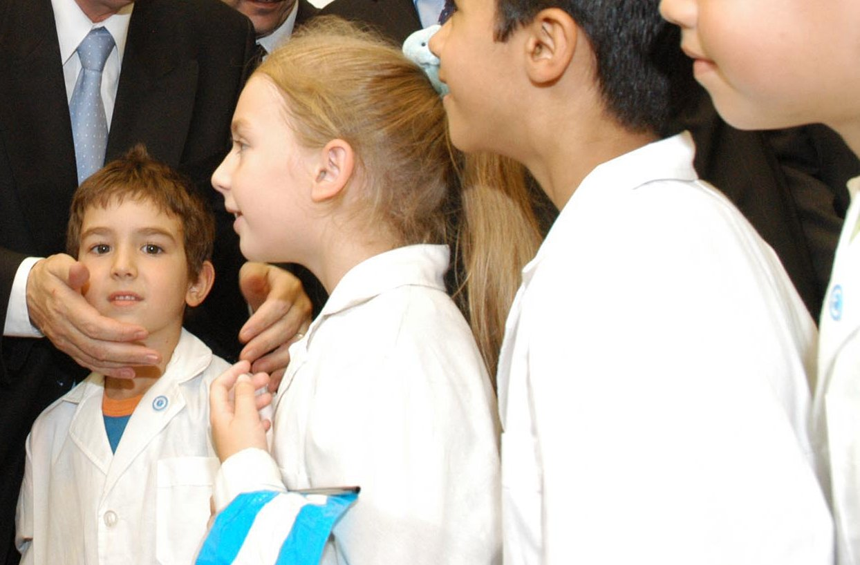 Alumnos con delantal blanco Personality rights warningAlthough this work is freely licensed or in the public domain, the person(s) shown may have rights that legally restrict certain re-uses unless those depicted consent to such uses. In these cases, a model release or other evidence of consent could protect you from infringement claims.